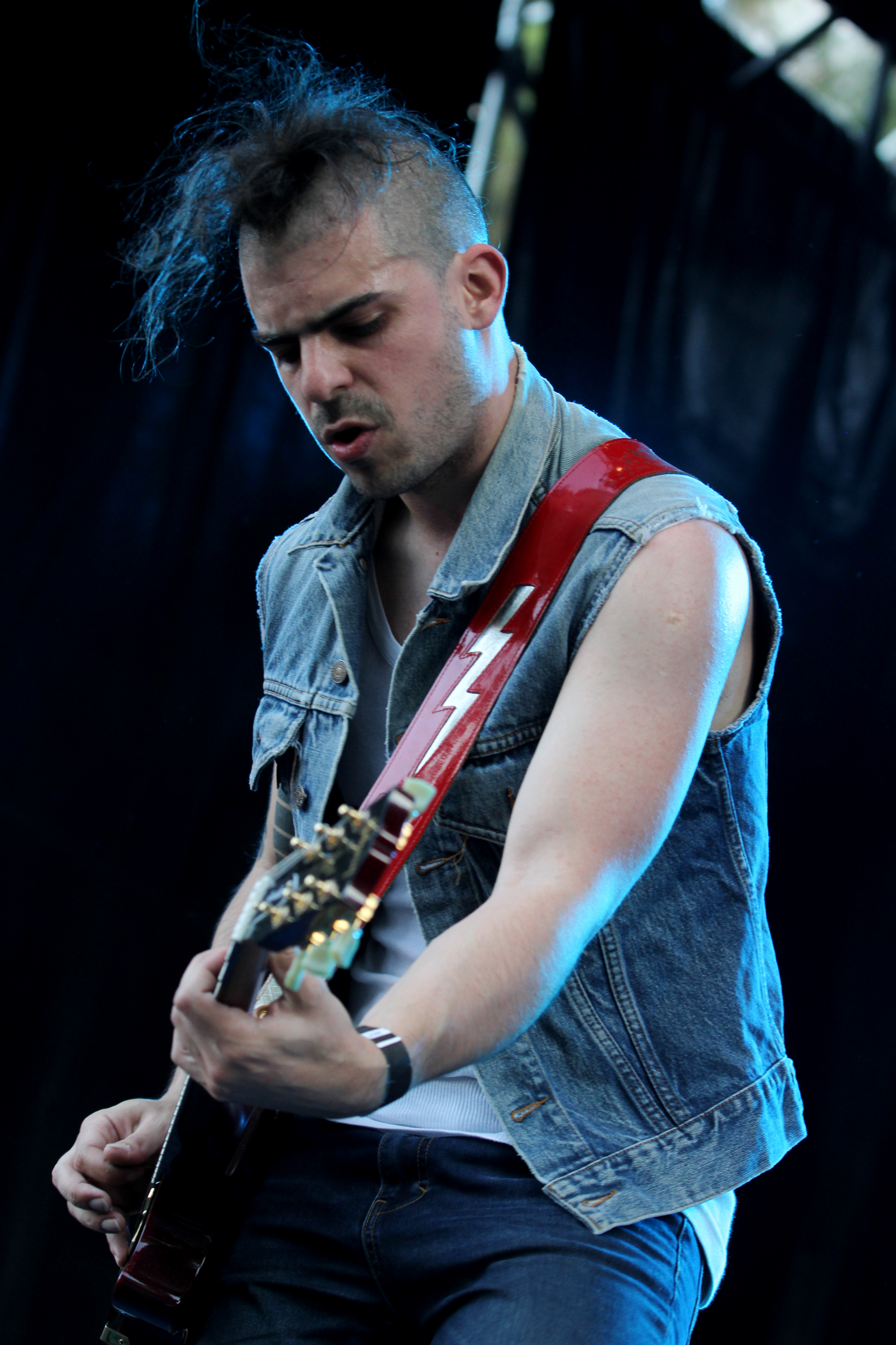 Futurock- sabado 15 de Noviembre. Banda Utopians.